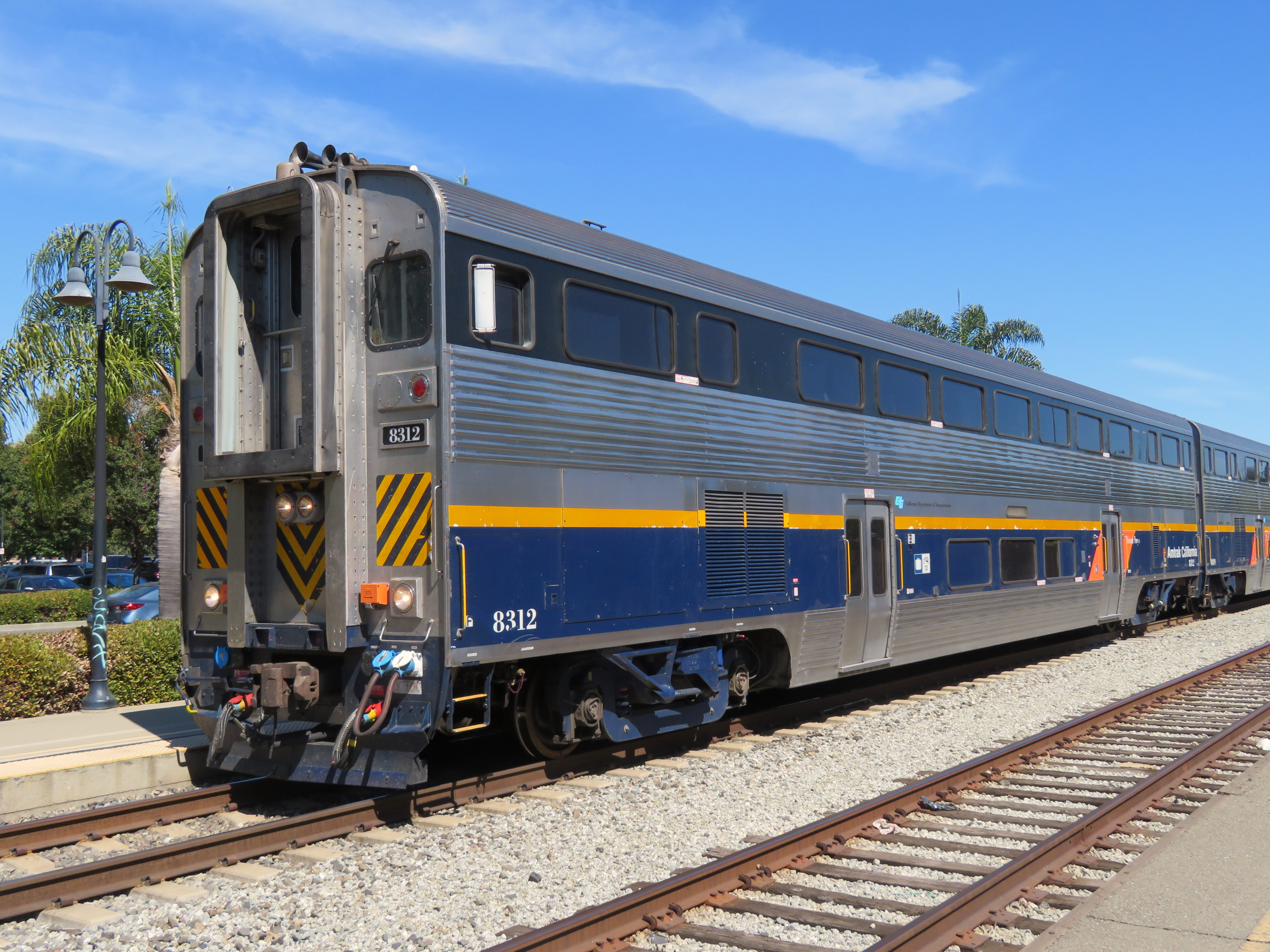 Cab car #8312 leads a northbound Capitol Corridor train at Hayward station in July 2018